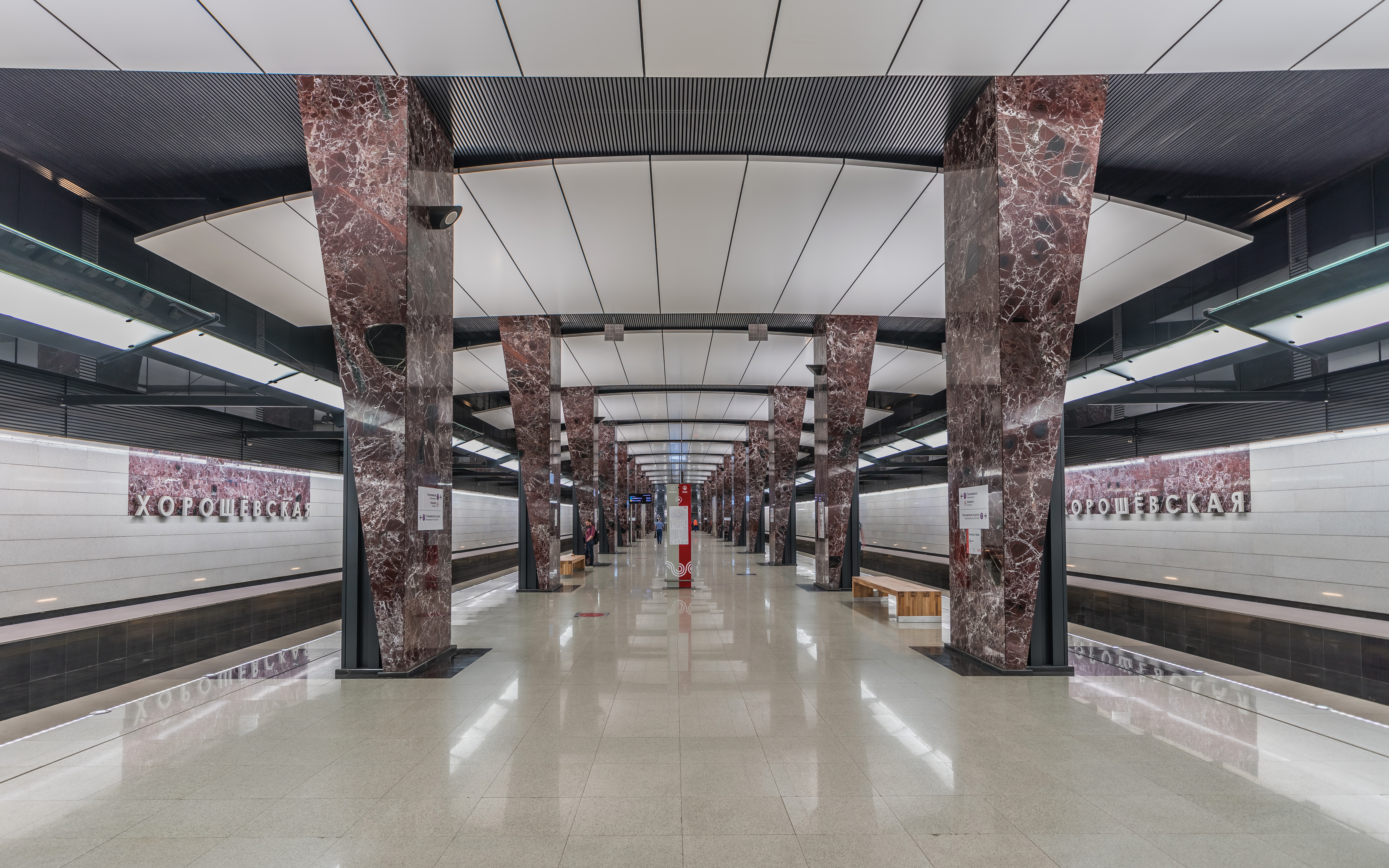 Khoroshevskaya metro station in Moscow, Russia